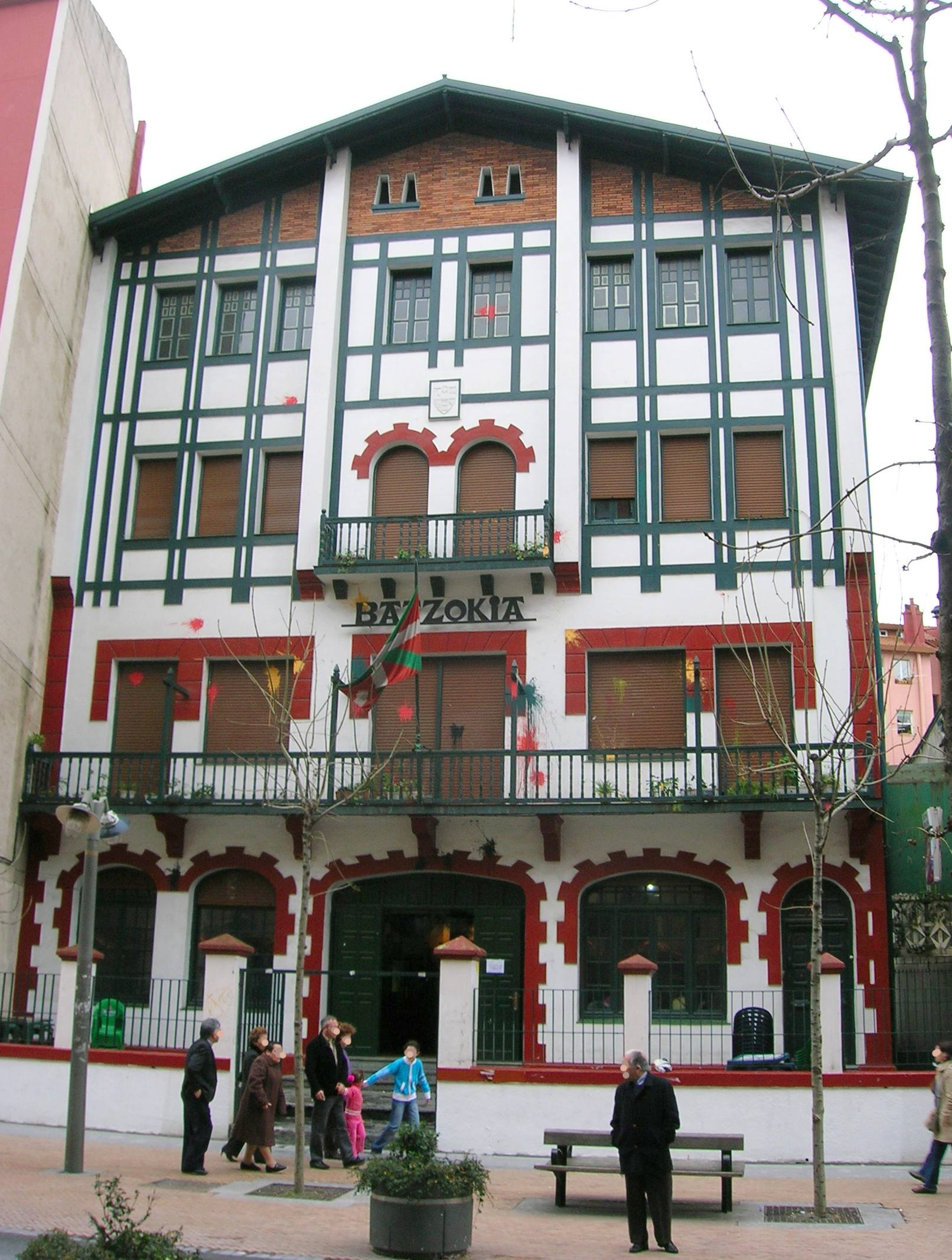 Old batzoki in Barakaldo, by Luis de Arana, the oldest (1898) in Biscay after that of Bilbao. As other batzokis (Basque Nationalist Party clubs) it has paint splashes on its façade, mainly red and yellow (colours of the Spanish flag).